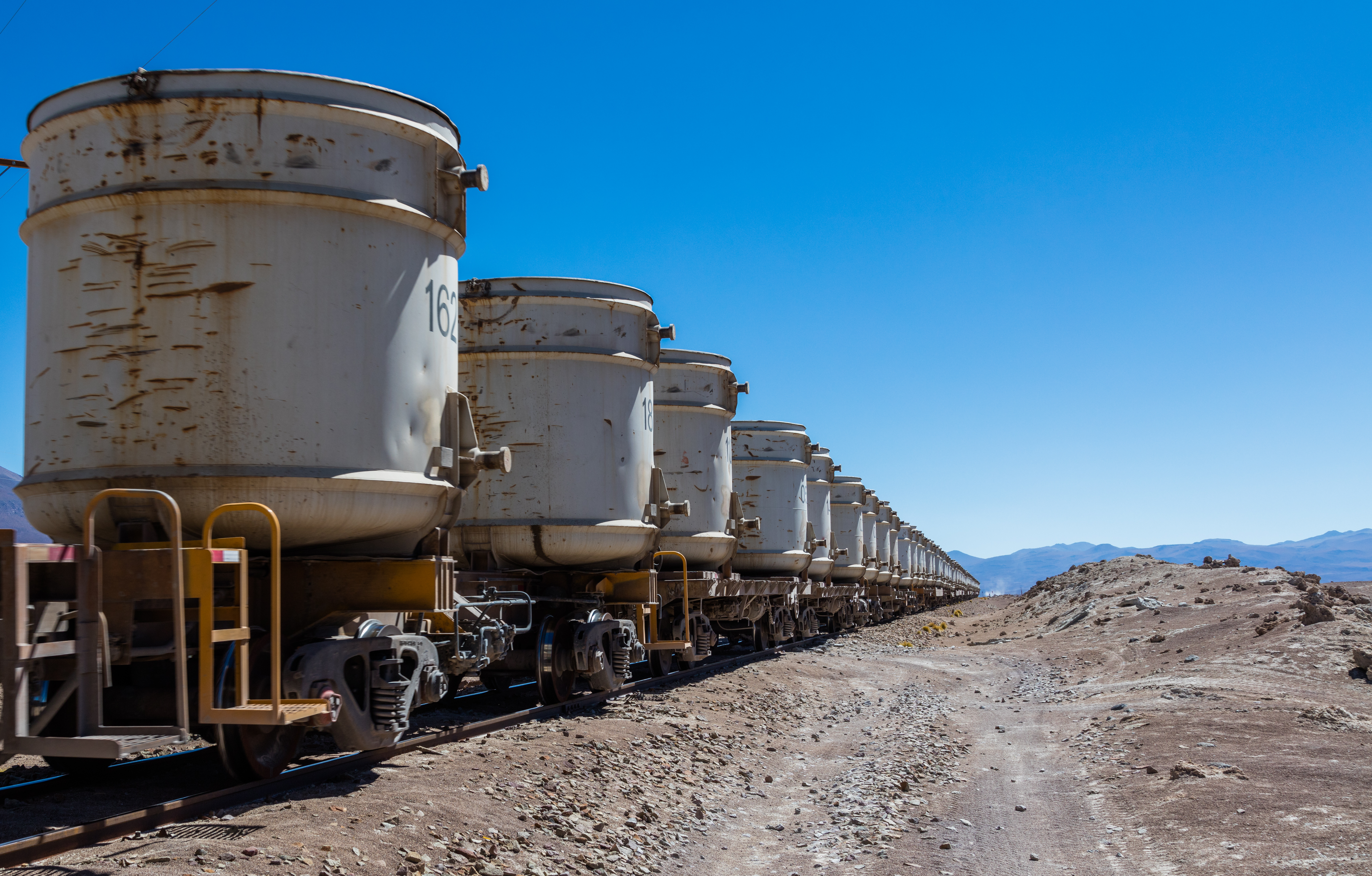 FCA train in the route Ollagüe-Uyuni, Bolivia